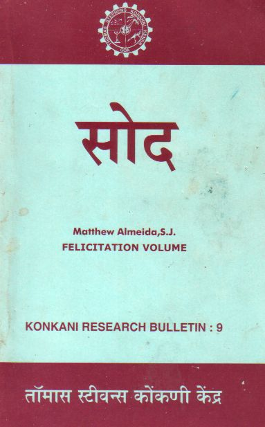 The research bulletin of the Thomas Stephens Konknni Kendr (TSKK) is a Jesuit-run research-institute working on issues related to the Konkani language. It is based in Alto Porvorim, on the outskirts of the state capital of Goa, India. Photo by Frederick "FN" Noronha